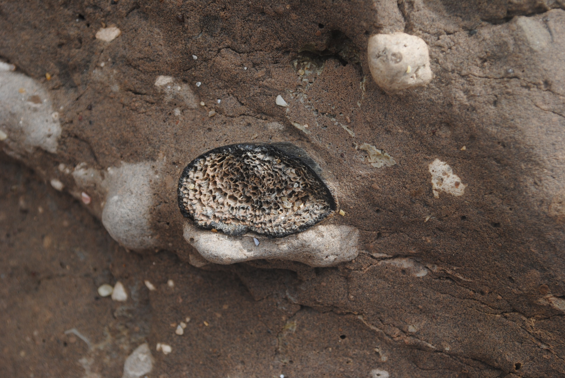 Fossil in sea coast at Piedras Negras, Mar del Sur, Argentina, probably extint megafauna